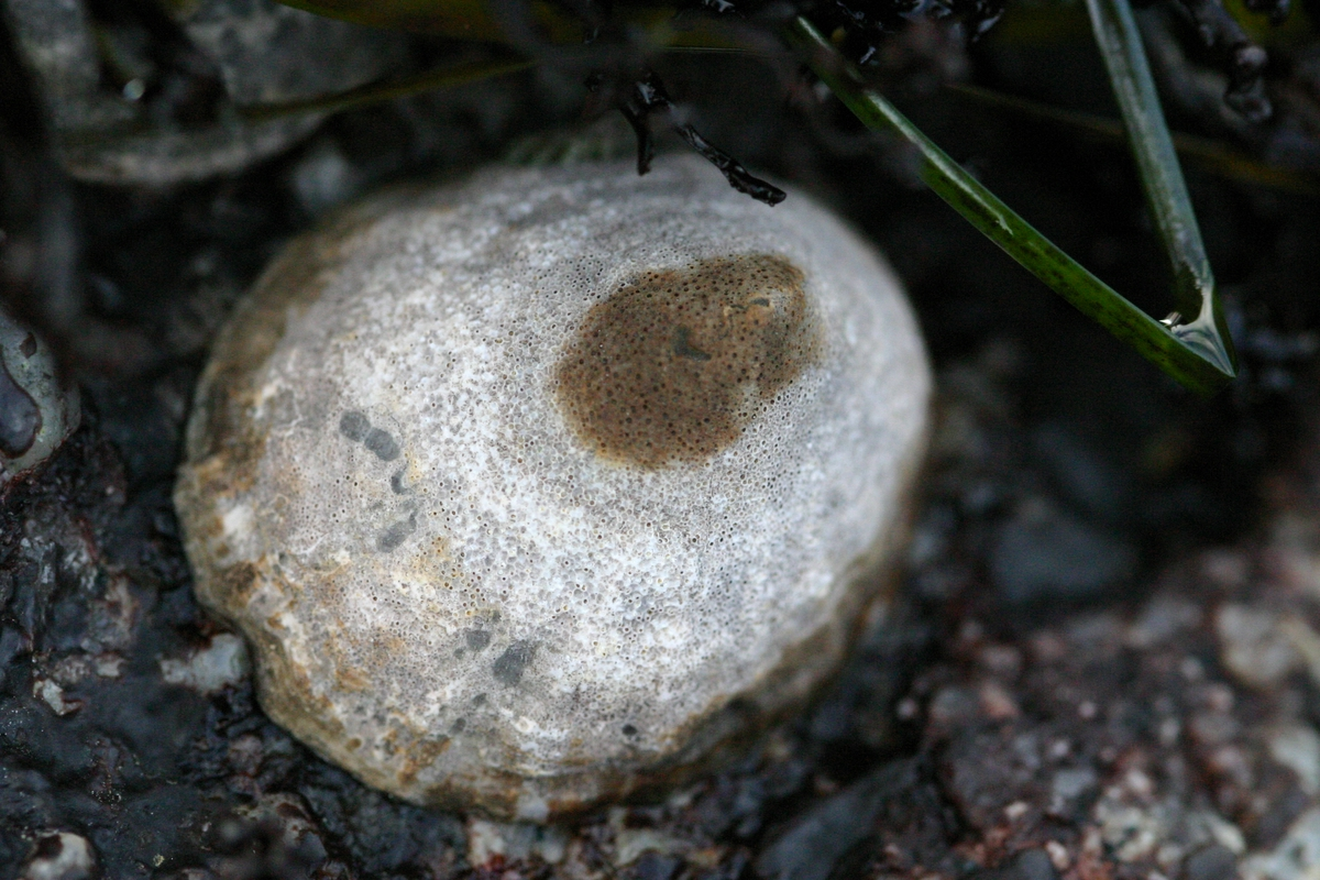 Shield limpet Lottia pelta, synonym: Collisella pelta, exposed at high tide at Point Piños. Limpets can endure long periods of dry exposure by sealing their mantle and flesh off from air with their shell.